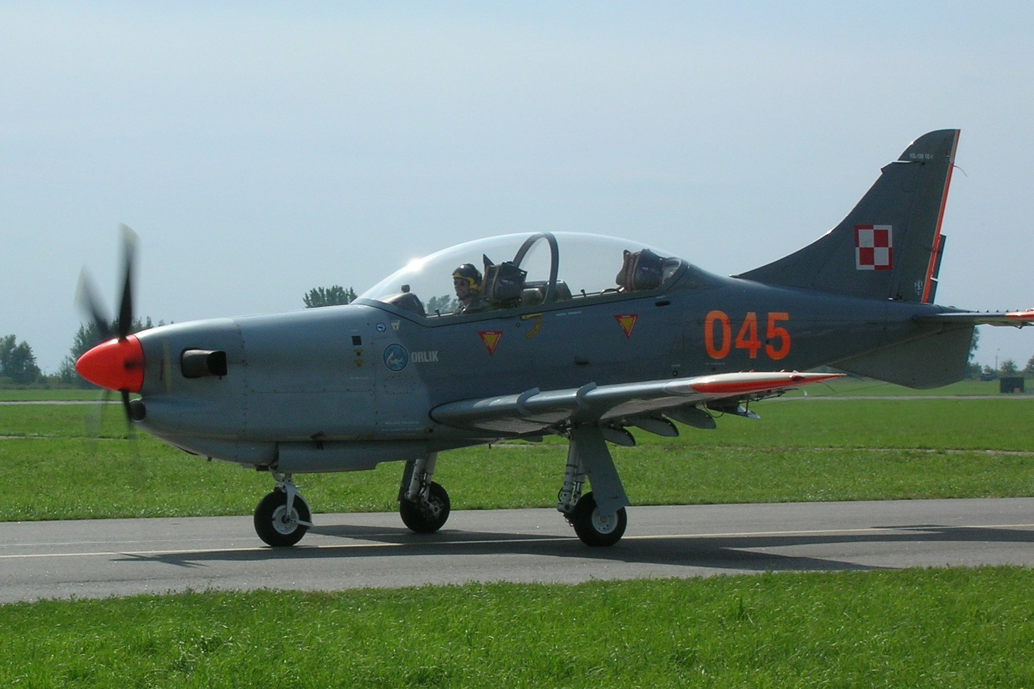 Copyright © 2005 User:Voytek S PZL-130 Orlik, during Airshow 2005 in Radom, Poland.